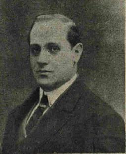 Manuel Folch i Torres, in El Teatre Català magazine of 29.2.1912